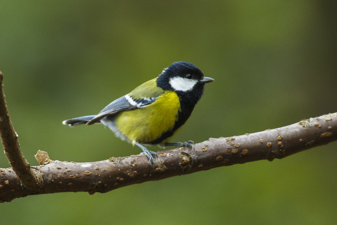 Green-backed Tit (Parus monticolus), Taiwan